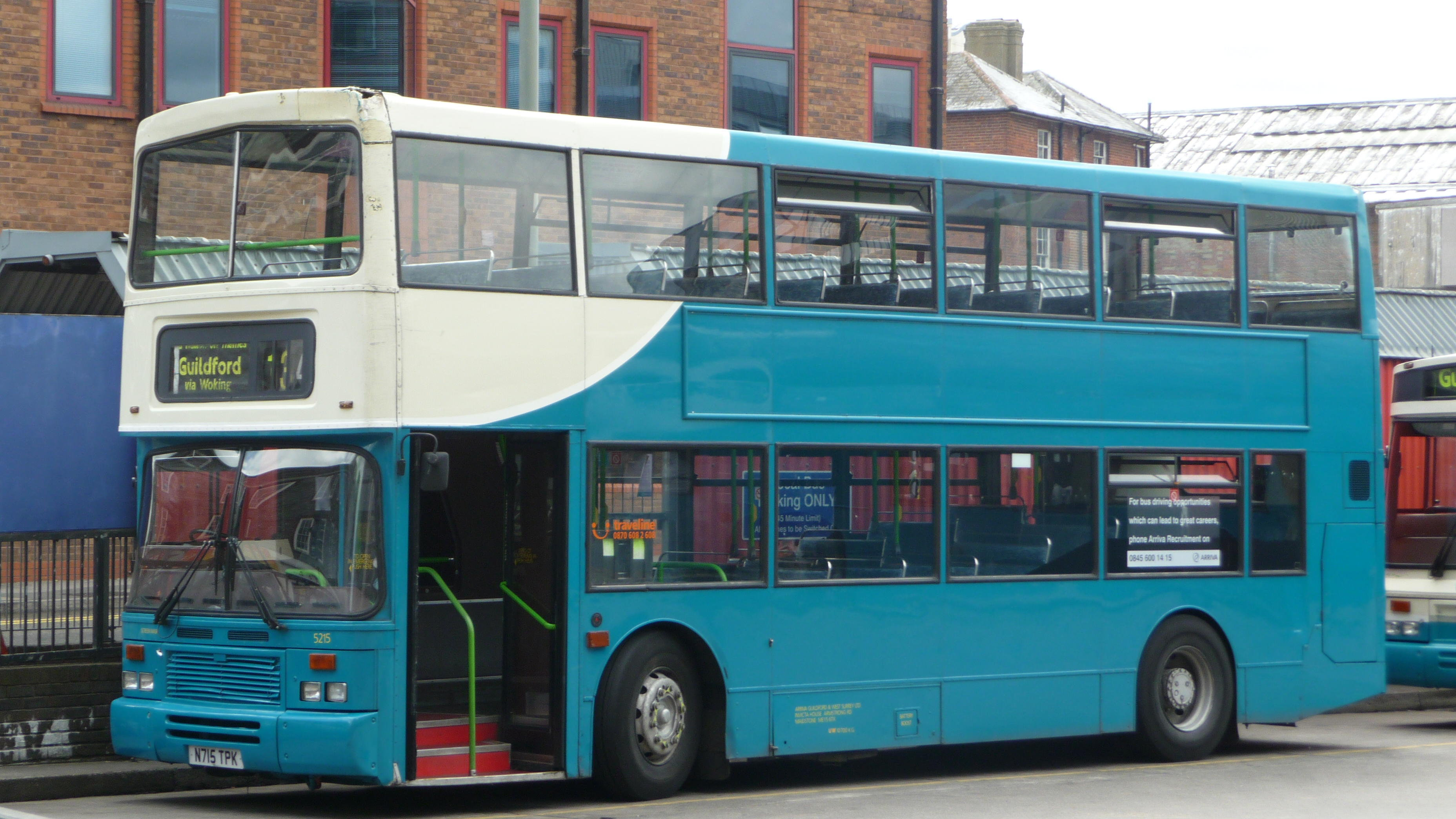 Arriva Guildford & West Surrey 5215 (N715 TPK), a Dennis Dominator/East Lancs, in Guildford bus station, laying over between duties. It is blinded for route 134 (a school variation of route 34). The Dominators were not low floor so would often be taken out of service between school journeys, if other vehicles were available. They were needed on the school routes for capacity reasons. 5215 was the penultimate Dominator ever built. It is currently (June 2010) operating in Maidstone, along with its sister 5214, after a pair of Volvo B7TLs were cascaded into Guildford. Note the hole in the front dome of the roof - a visible result of Surrey's many trees and few double-deckers.